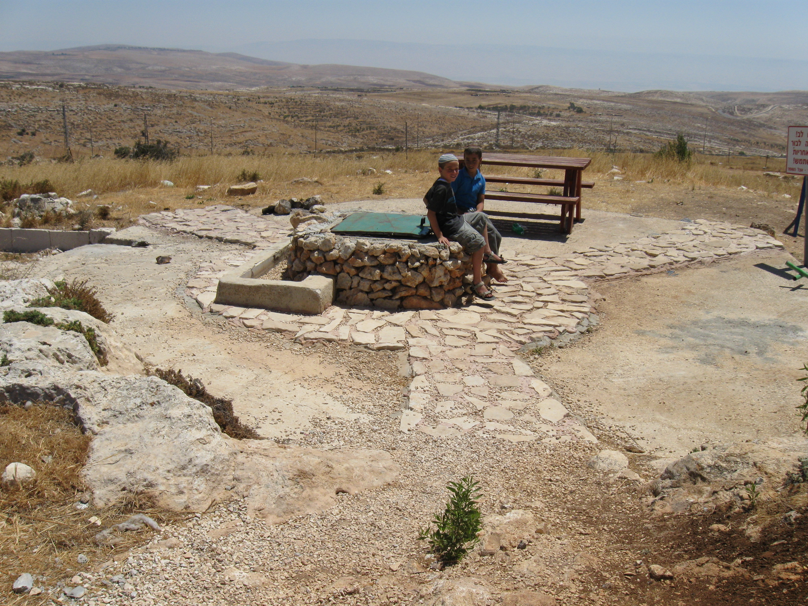 Old_Well__Migron